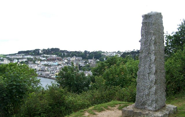 Monument to Sir Arthur Quiller-Couch One of the greatest Cornish writers; the monument is on the Hall walk